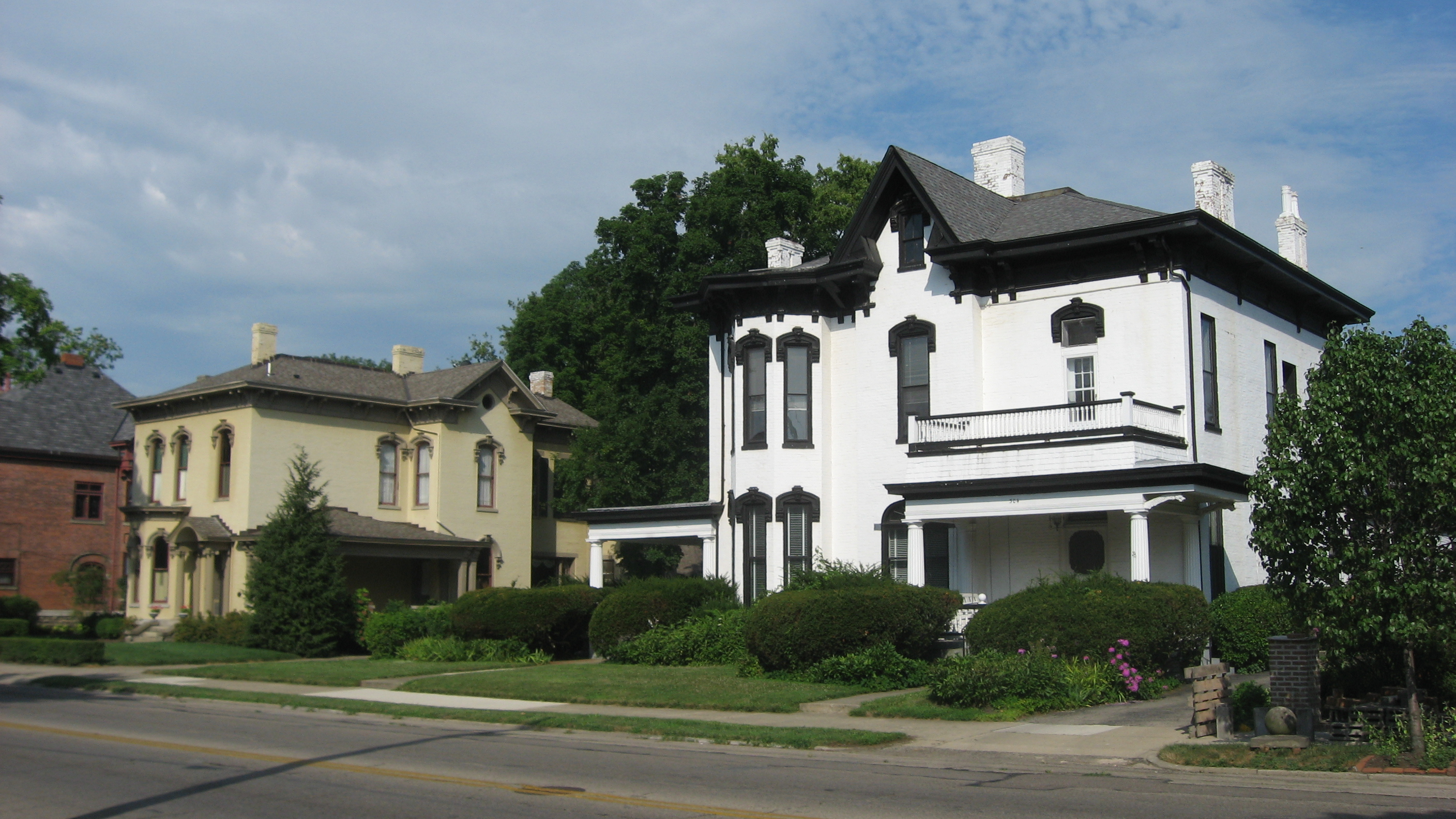 Houses on the eastern side of the 300 block of S. Main Street in Middletown, Ohio, United States. These houses are part of the South Main Street District, a historic district that is listed on the National Register of Historic Places.